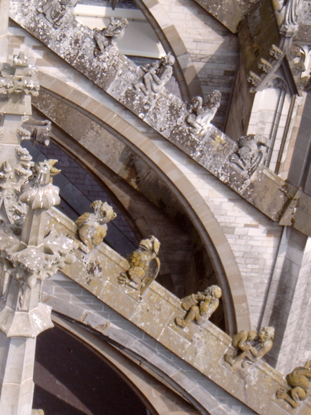 Picture of the statues on the flying butresses, for which the saint John's Cathedral is famed.